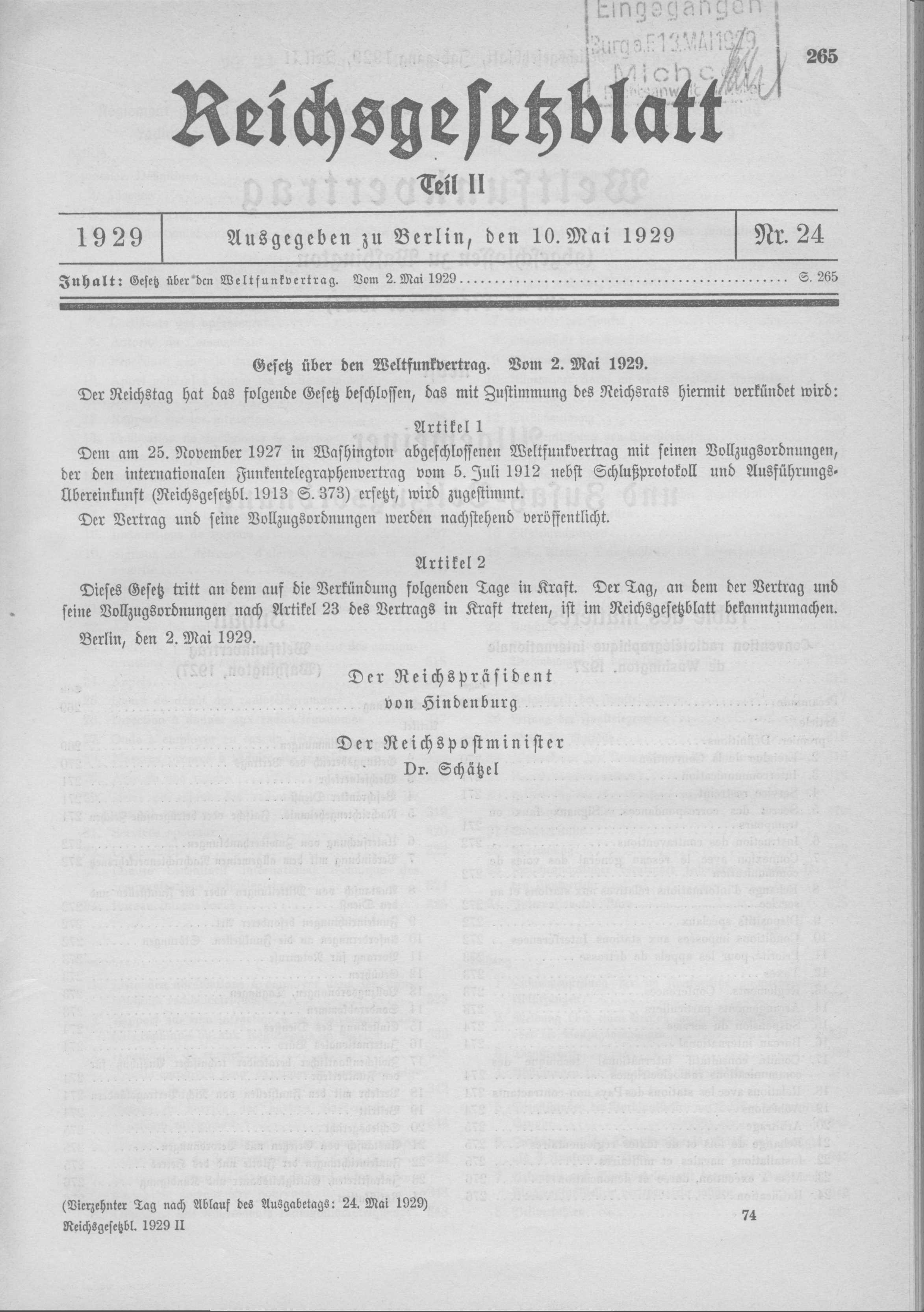 Scan from the Imperial Law Gazette of Germany, 1929, part 2